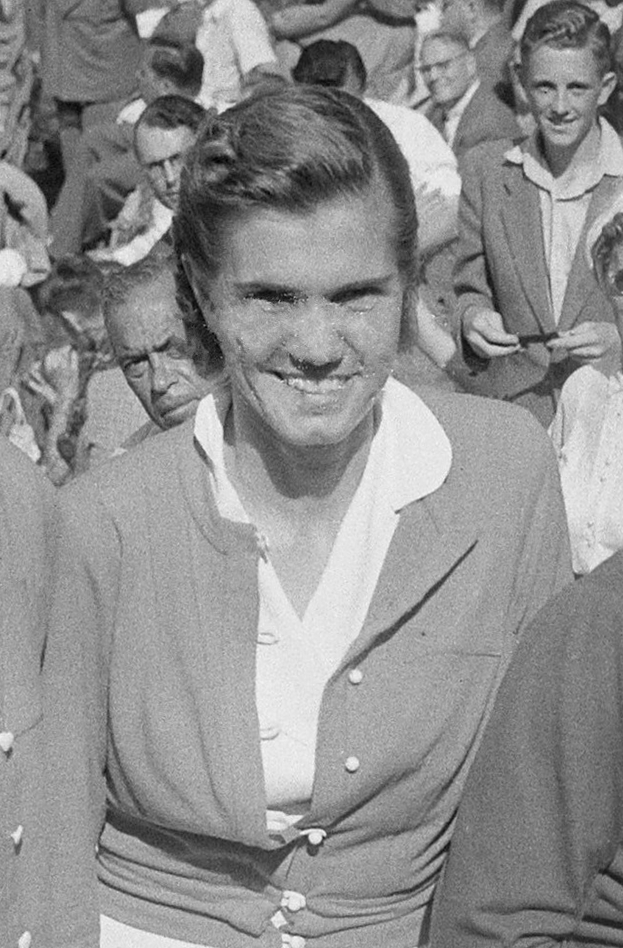 From left to right: the American tennis players Doris Hart, Shirley Fry (not yet Irvin) and Maureen Connolly at a Noordwijk tennis event (The Netherlands, 1953).